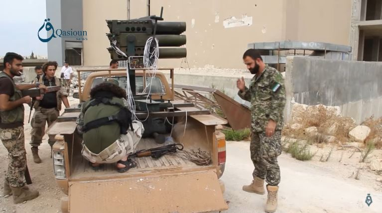 Qasioun news:Aleppo:Opposition forces shell with rockets launchers YPG sites in Aleppo 2-10-2015